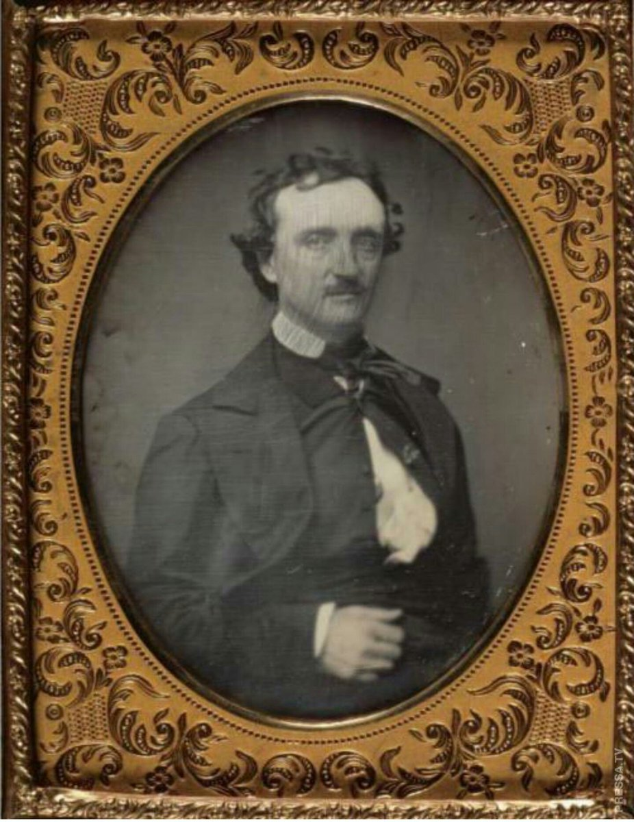 Edgar Allan Poe. Quarter-plate portrait daguerreotype of Edgar Allan Poe taken by William Abbott Pratt in Richmond, Virginia, September 1849. The two daguerreotypes Pratt made of Poe in this sitting are the last to have been made of the writer before his death in Baltimore in October 1849.